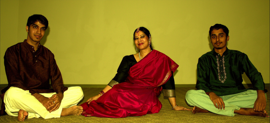 Oopali Operajita